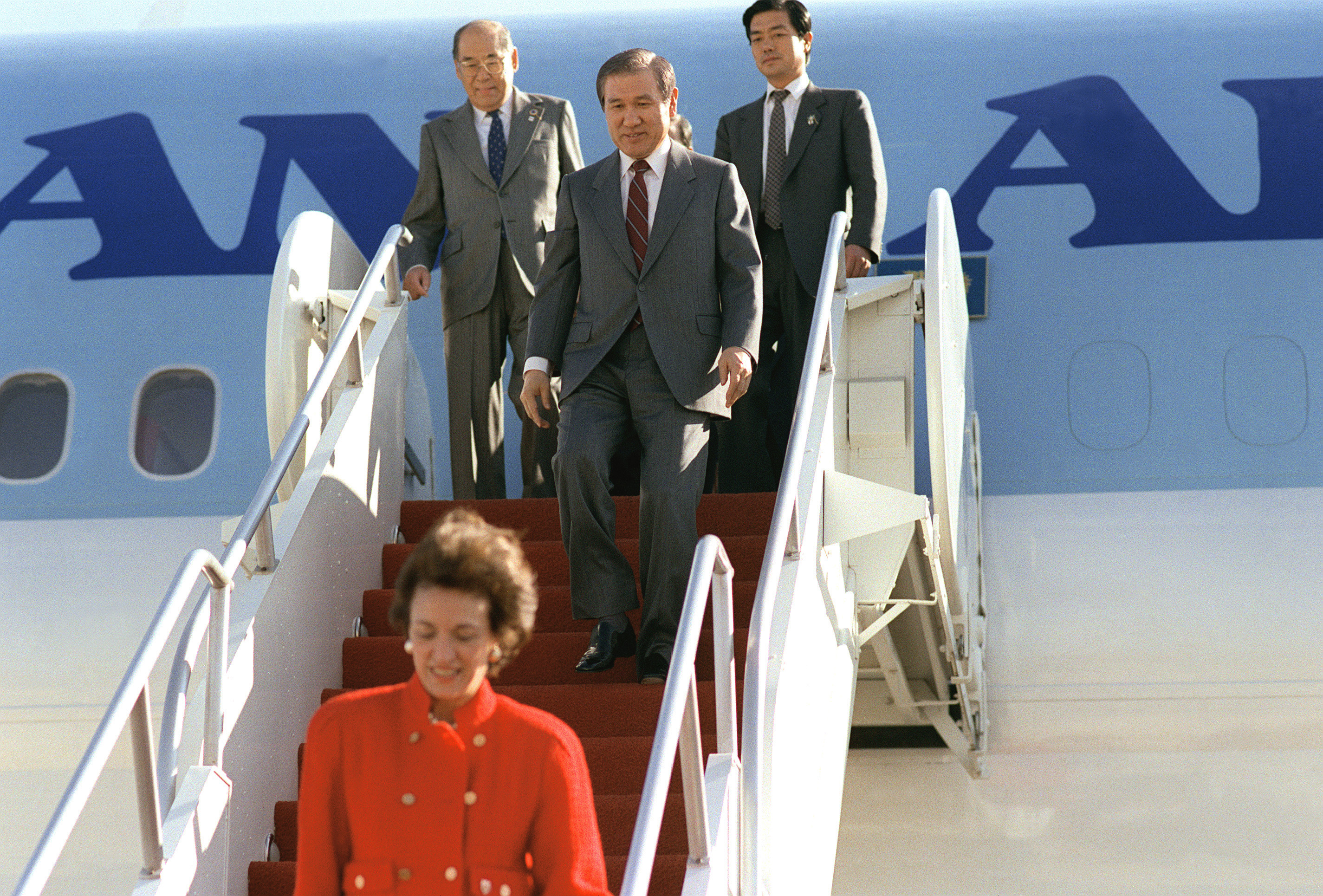 DF-SC-91-07852 President Roh Tae Woo of South Korea arrives on base.